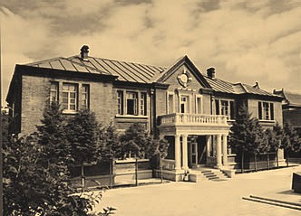 Jixi building of former Manchukuo Palace, Changchun, China